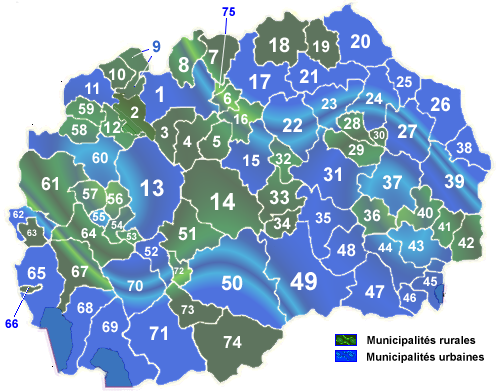 Opshtinas of the Republic of Macedonia